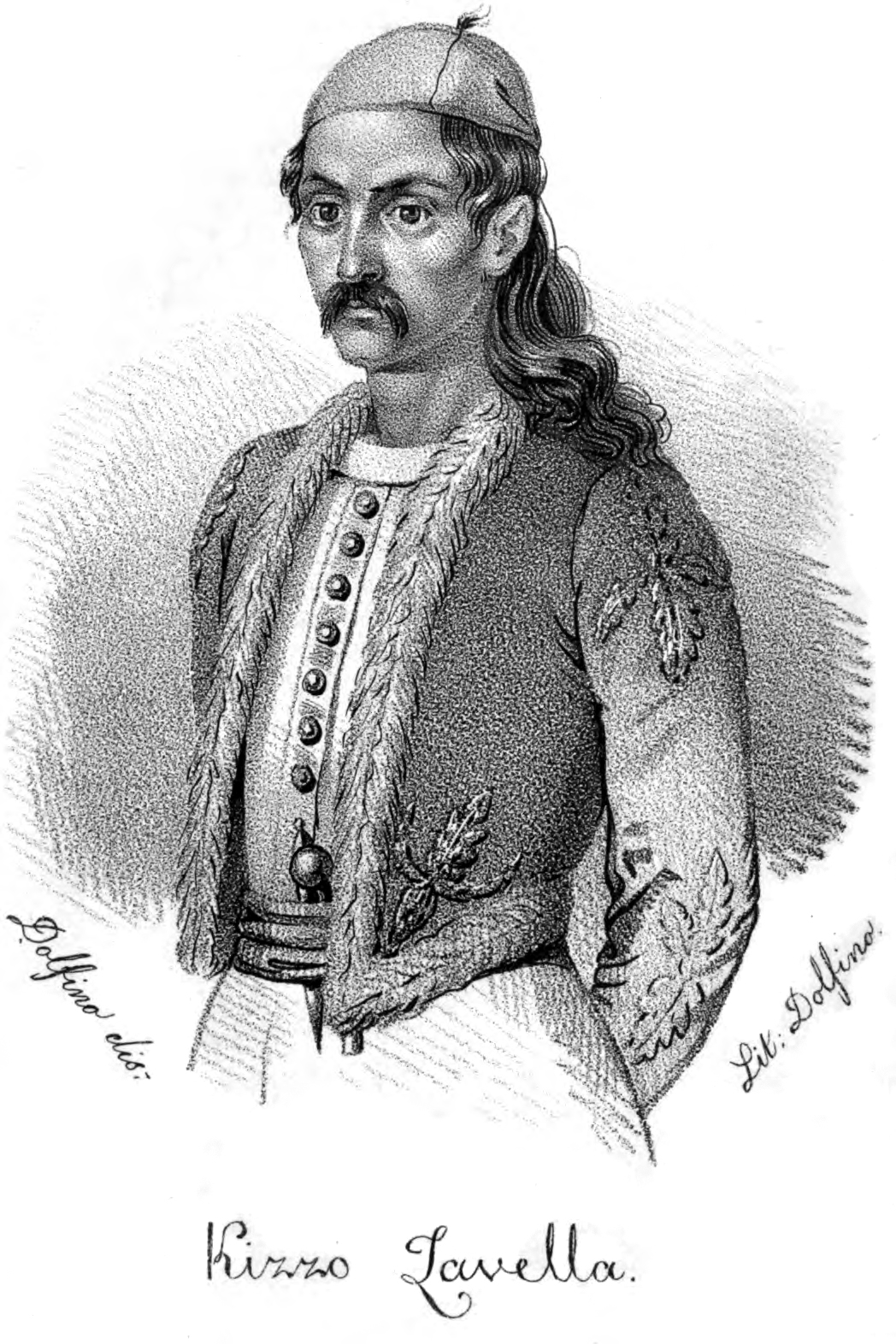 The Greek Souliot fighter Kitsos Tzavelas (1801-1865). Lithography by Dolfino.